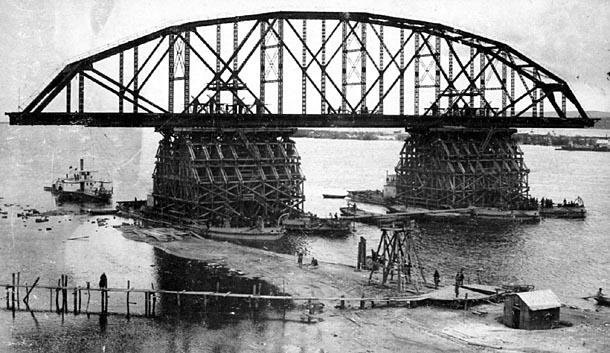 Khabarovsk Bridge during the construction works (1913-1916)